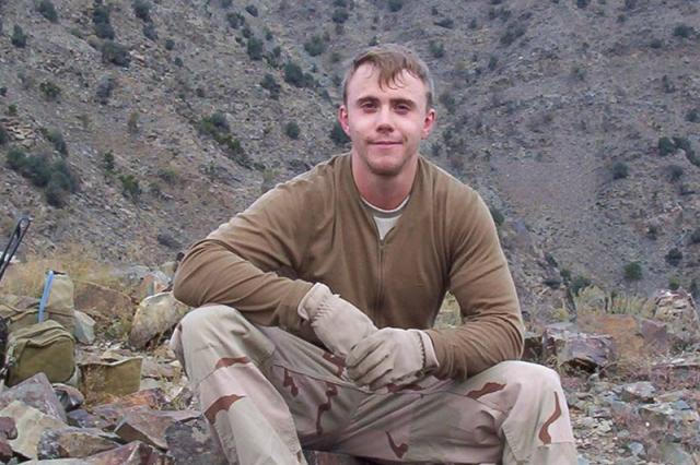 United States Army Staff Sergeant Robert James Miller